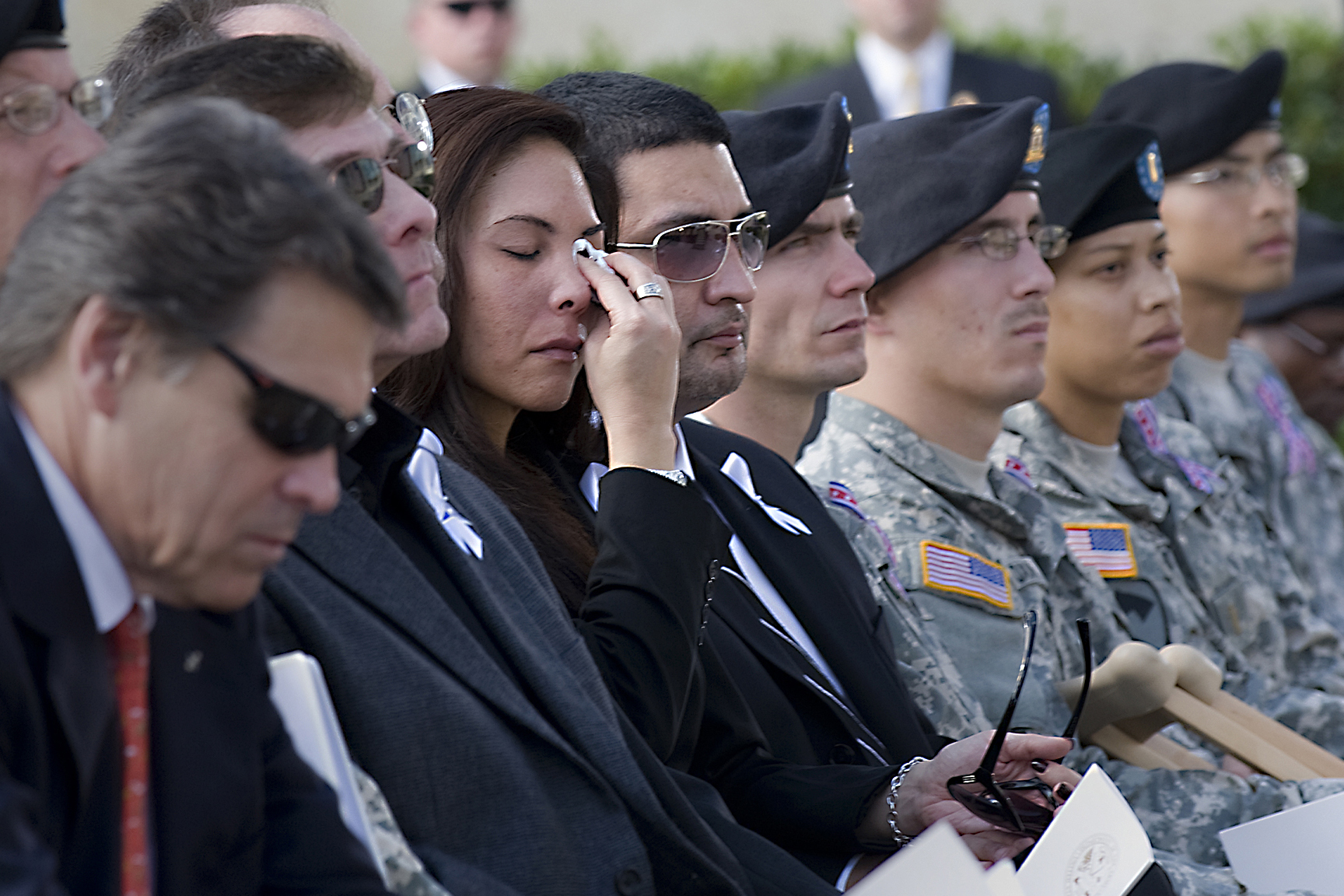 Family members and troops attend the Nov. 10, 2009, memorial service honoring the victims of the Nov. 5 shooting spree that left 13 dead and 38 wounded. See more at